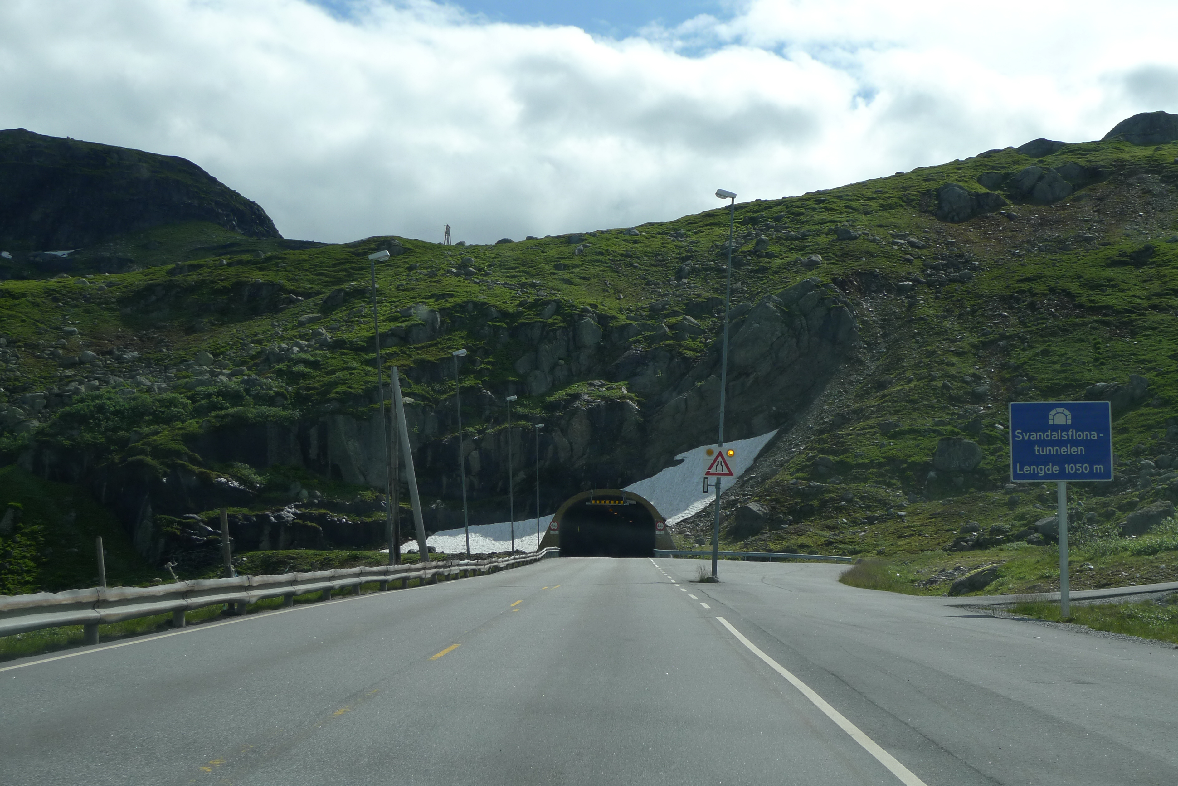 Svandalsflona tunnel in Odda, Norway. Original description: Tour Hardangervidda 2011